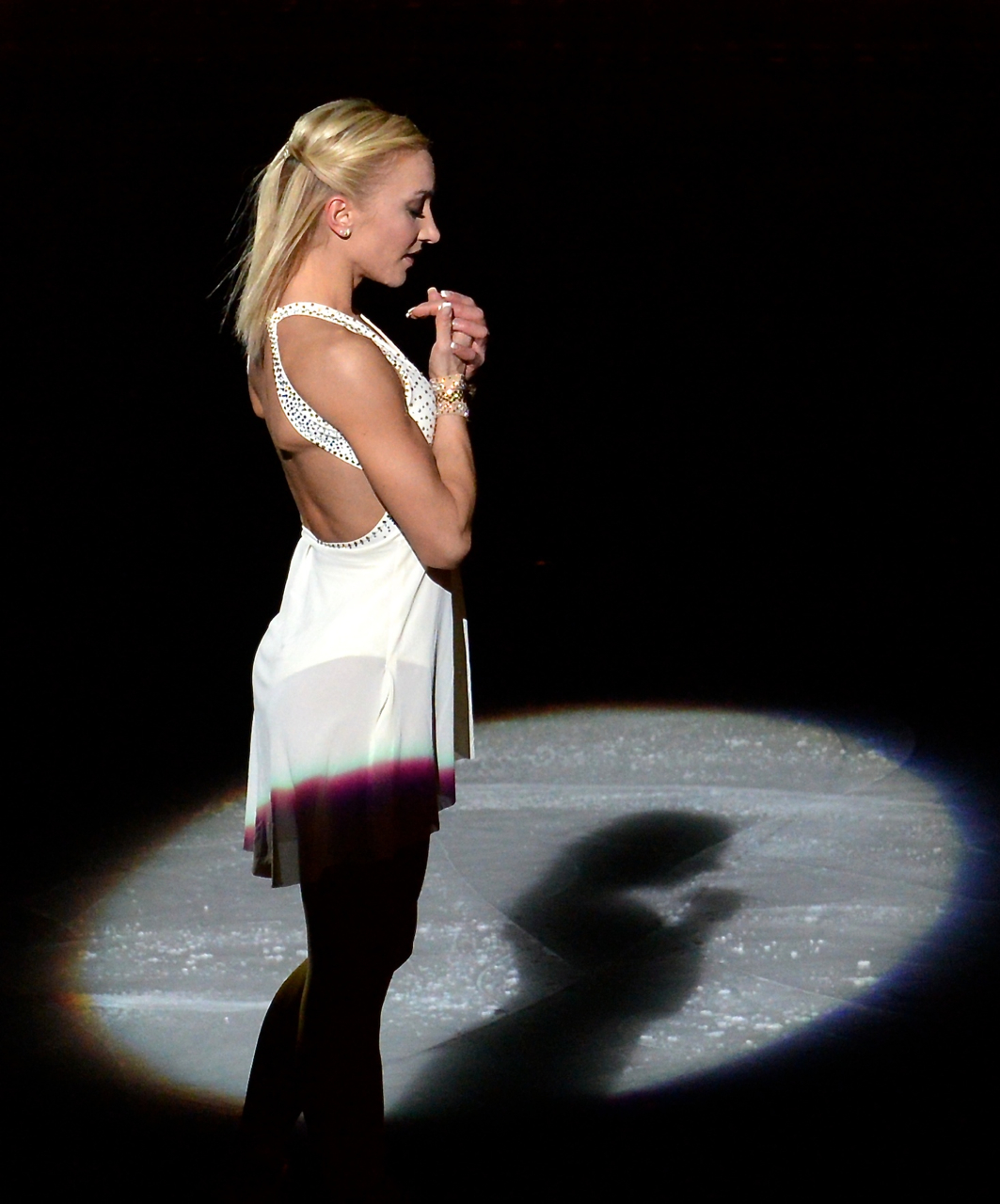 Aliona Savchenko in "Art on Ice" at the Globe Arena in Stockholm, March 13, 2014.